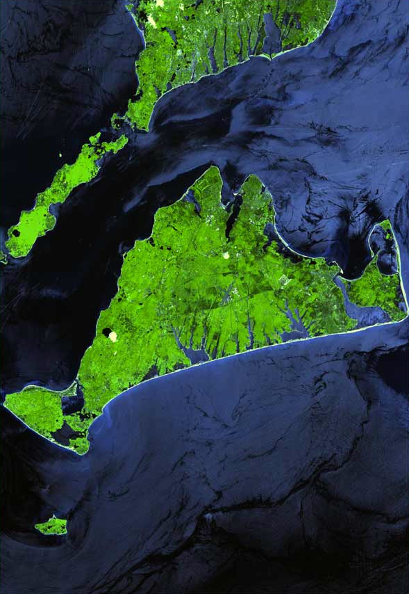 The raw satellite imagery shown in these images was obtain from NASA and/or the US Geological Survey. Post-processing and production by